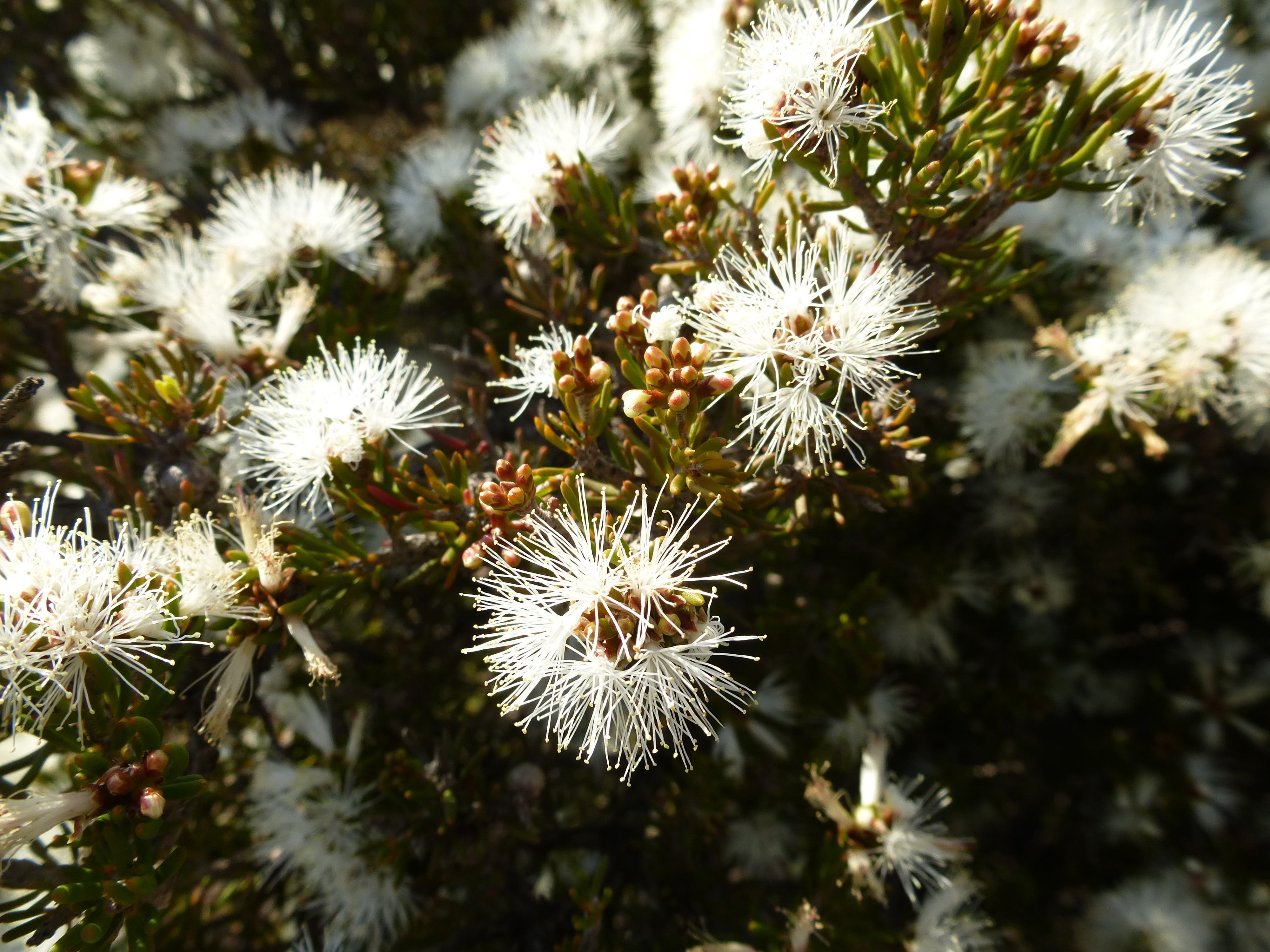 Melaleuca teuthioides growing 10 km east of Ravensthorpe